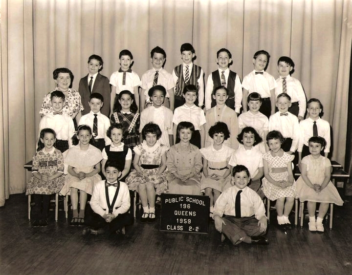 Class Photo from NY Public School PS196 in Forest Hills Queens New York of class 2-2 2nd grade, this shows in the back row center Jeff Hyman aka Joey Ramone